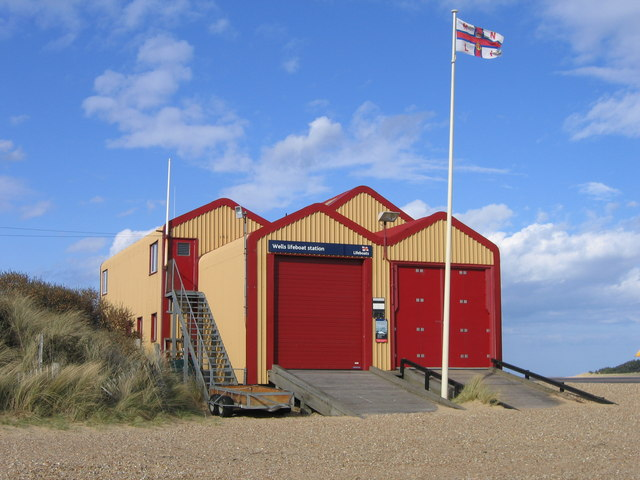 Wells Lifeboat Station As a once busy commercial port and now the only major harbour along the North Norfolk coast, the RNLI has kept a lifeboat at Wells for over 100 years.